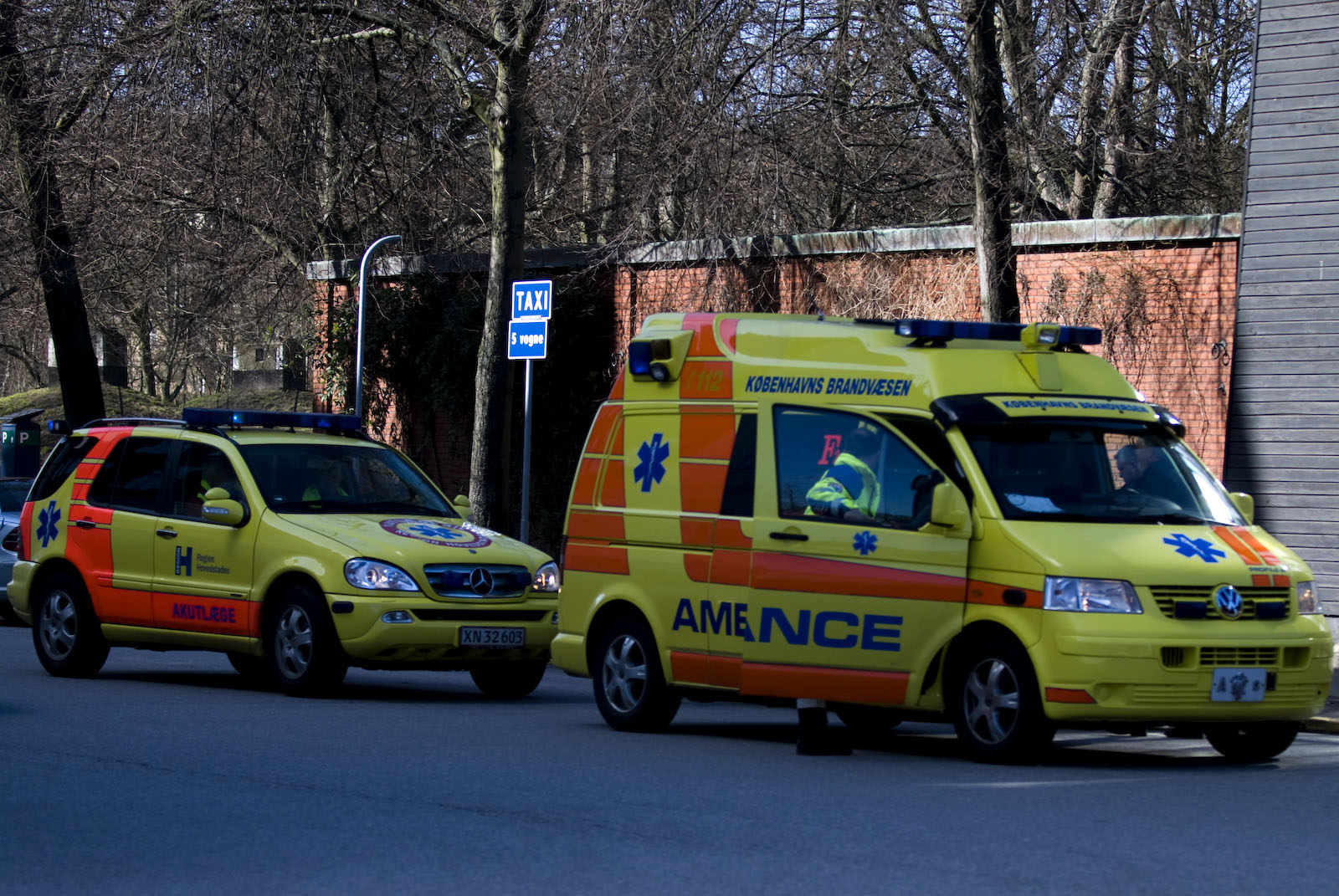 An ambulance followed by an emergency doctor's vehicle. The former is from the Copenhagen Fire Brigade, while the latter is from the Copenhagen Hospital Corporation.